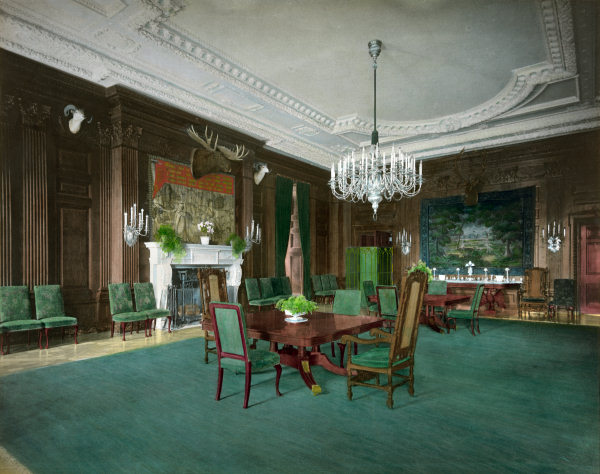 State Dining Room in the White House during Theodore Roosevelt Administration in 1904, as decorated by Charles Follen McKim.